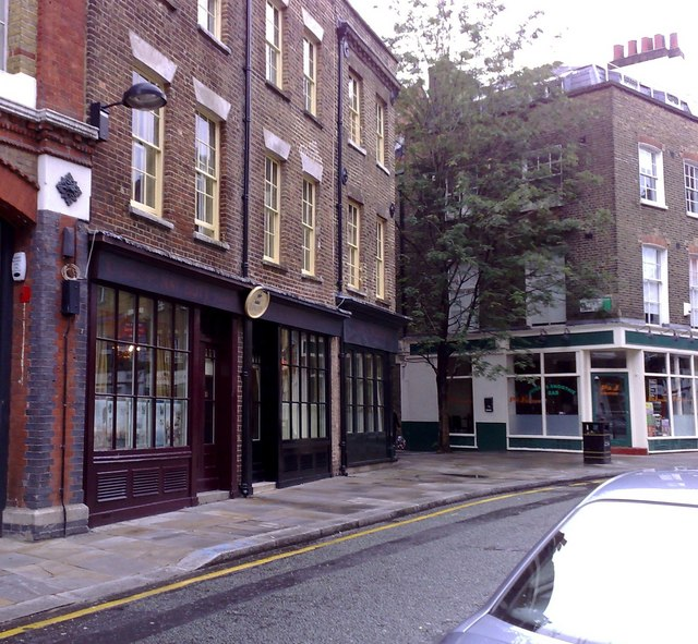 The Rookery, Cowcross Street, Clerkenwell The Rookery is a hotel situated on the corner of Cowcross St and Peter's Lane EC1. The hotel is an amalgam of several 18thC town houses dating from about 1764. St Bart's, St Paul's and the City are a stone's throw away via Smithfield Market, which is just around the corner to the right.